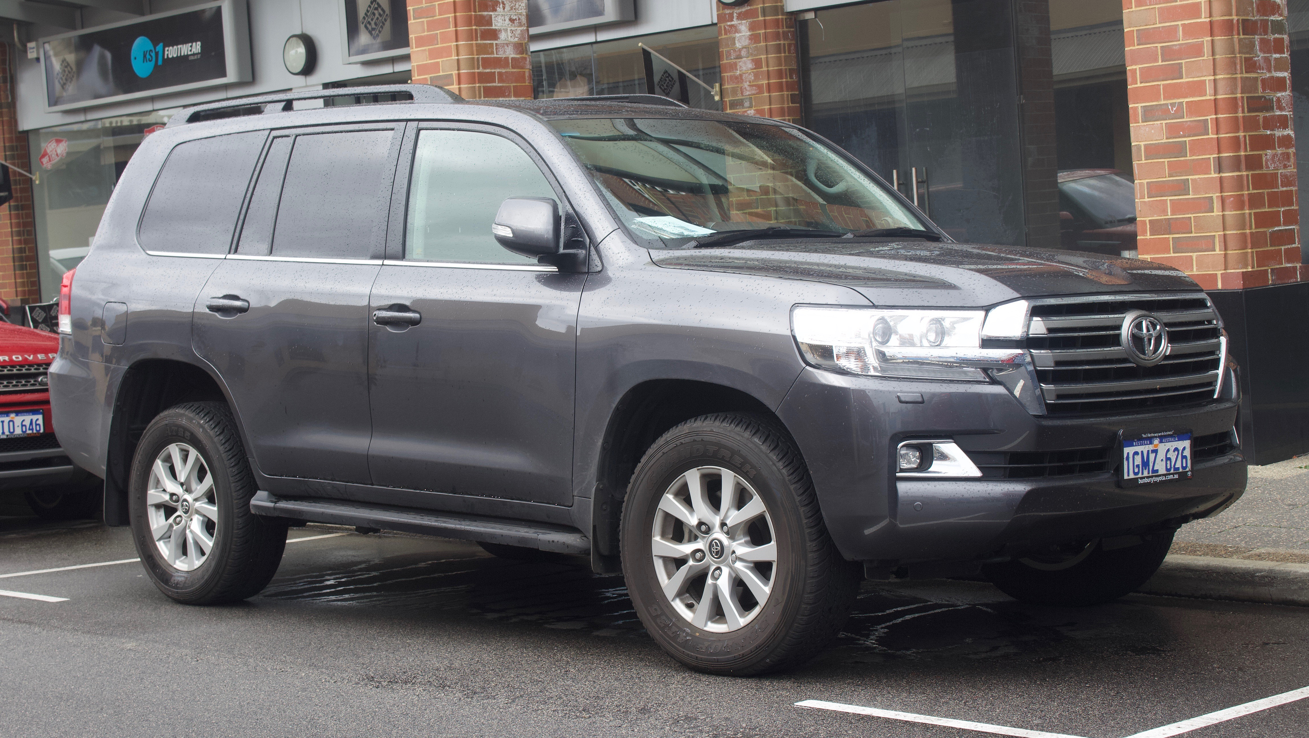 2018 Toyota Land Cruiser (VDJ200R) VX wagon. Photographed in Fremantle, Western Australia, Australia.